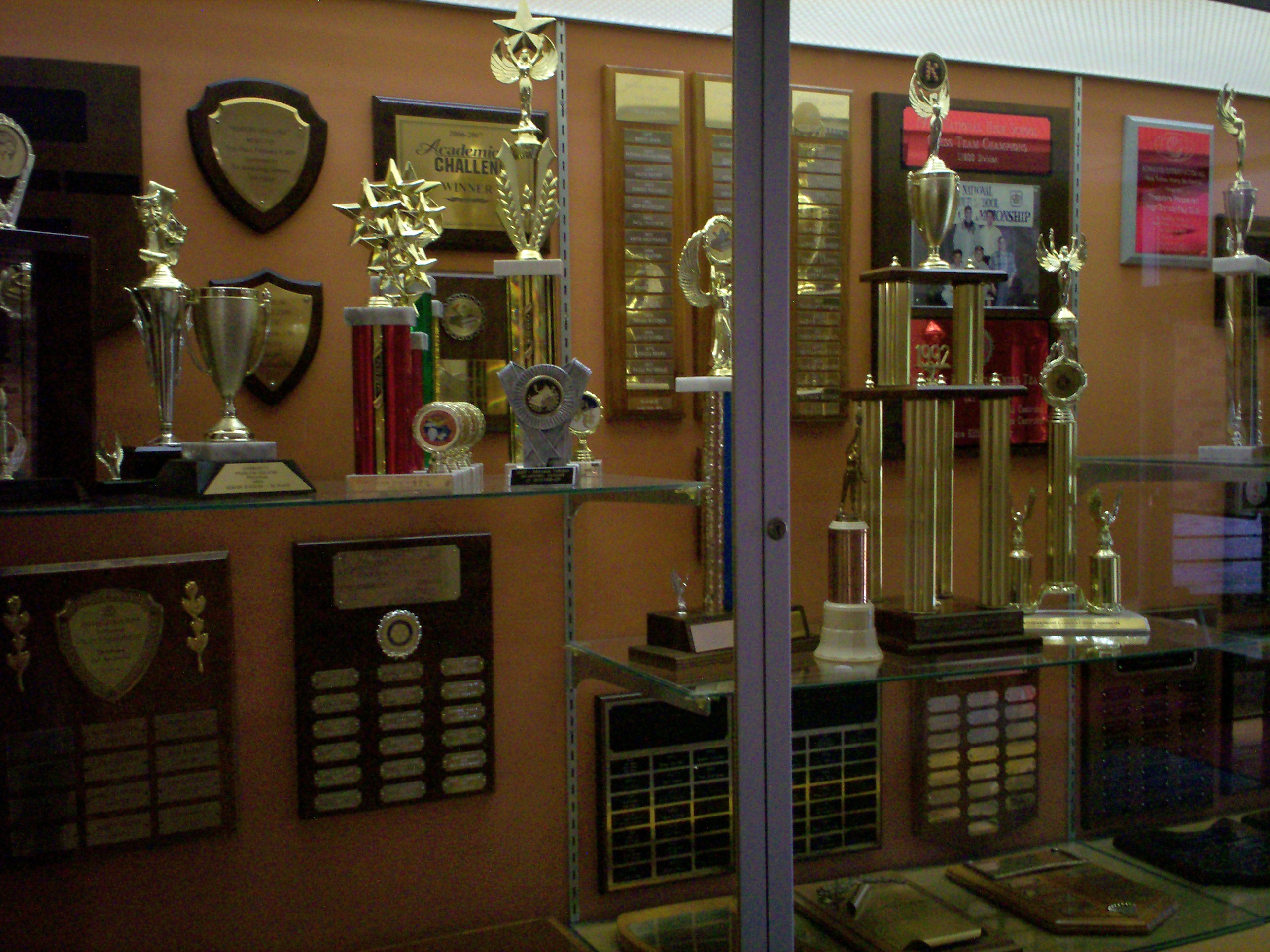 Trophy case at Theodore Roosevelt High School in Kent, Ohio. Trophies and plaques here are for non-athletic accomplishements. The large trophy to the right of center is the National High School Champion trophy won by the Chess Club in 1992. A plaque with the team photo is visible just behind the trophy and says "1992 National High School, Team Chess Champions, U1600 division". Other plaques and trophies on the left are from Future Problem Solving and Academic Challenge.